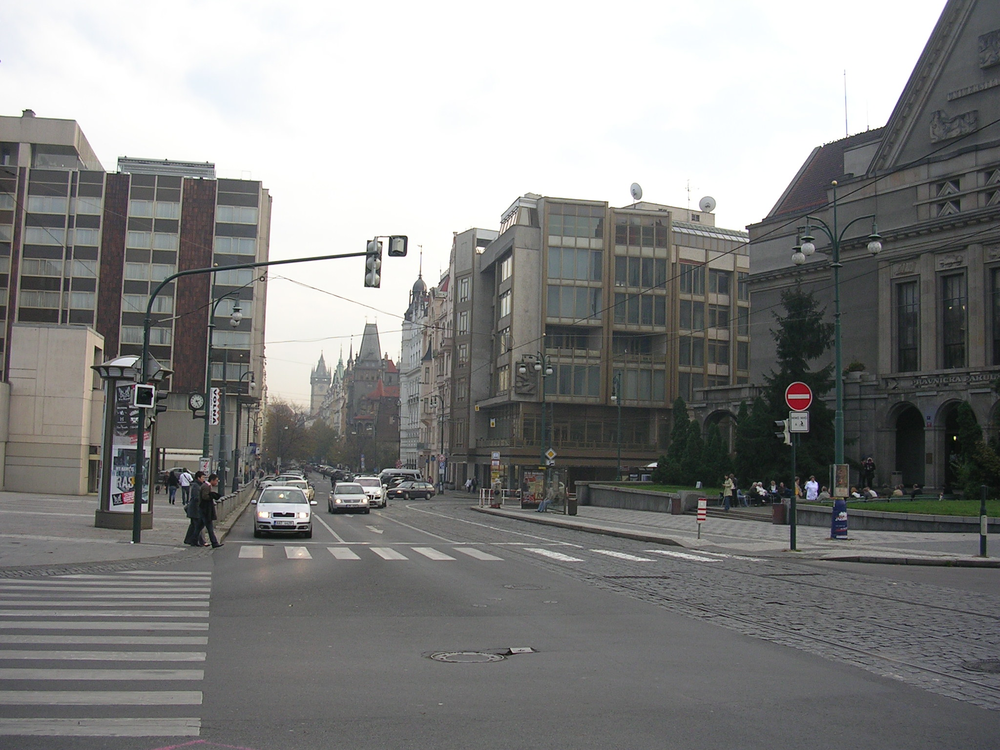 Prague, Old Town and Josefov.